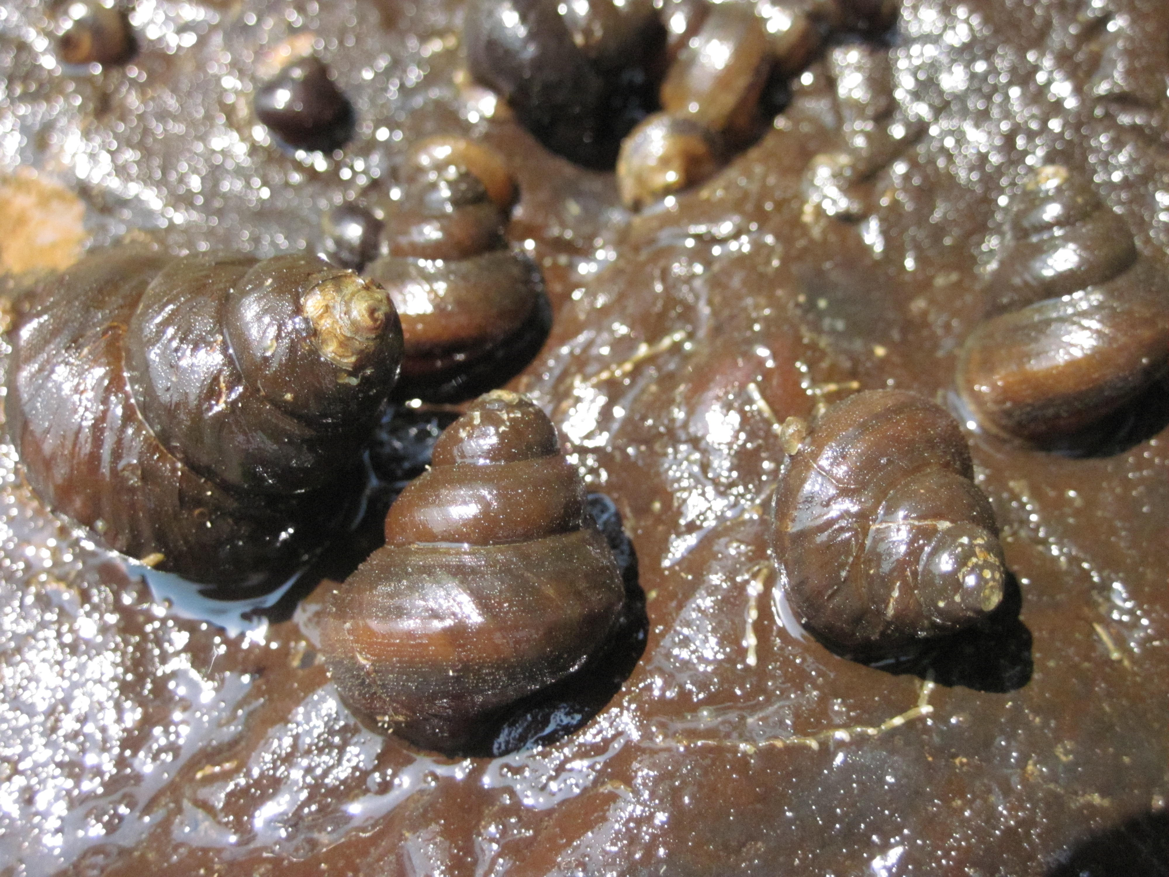 Photo of a group of Tulotoma magnifica on mud.